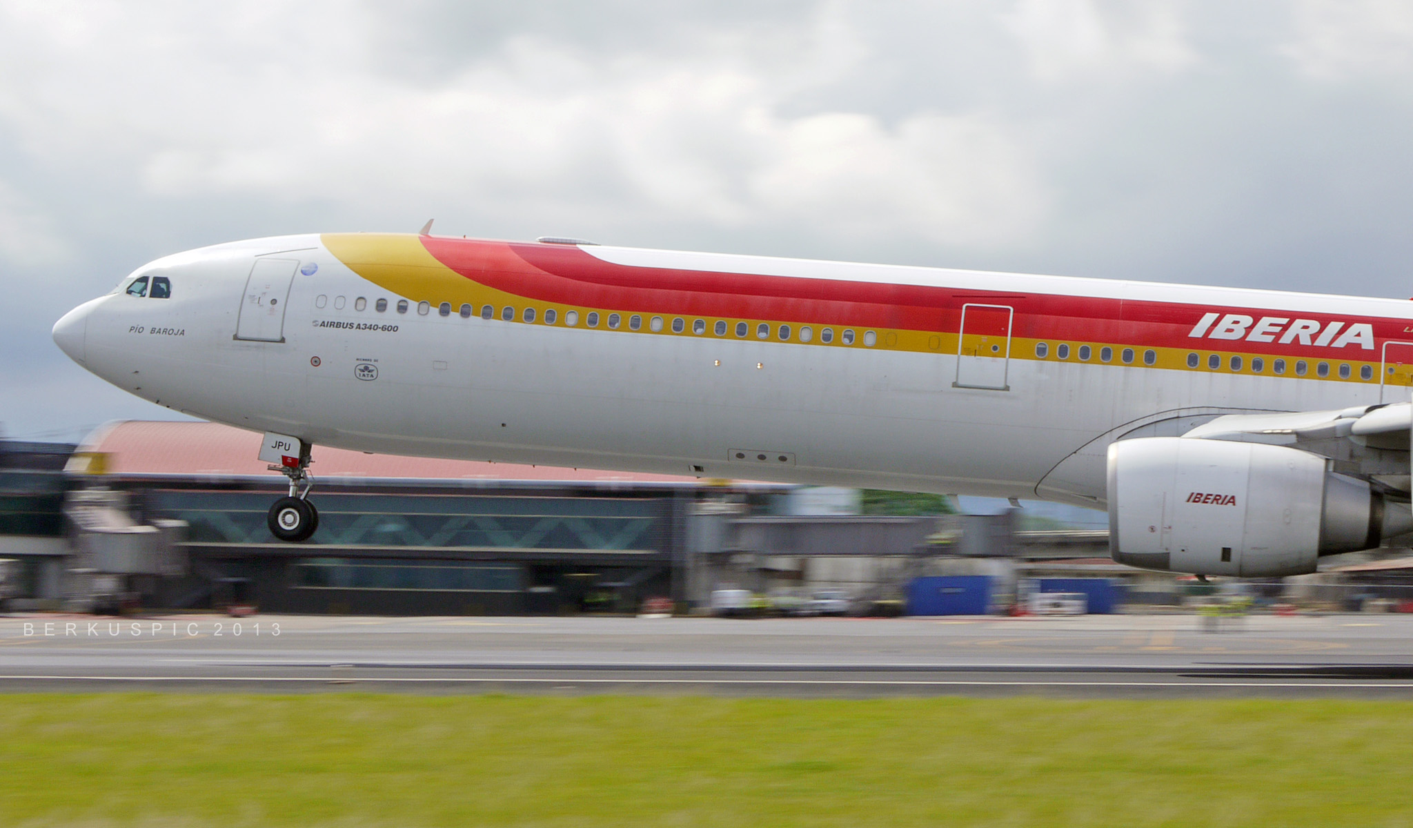 IBERIA about to land at MROC/ SJO.